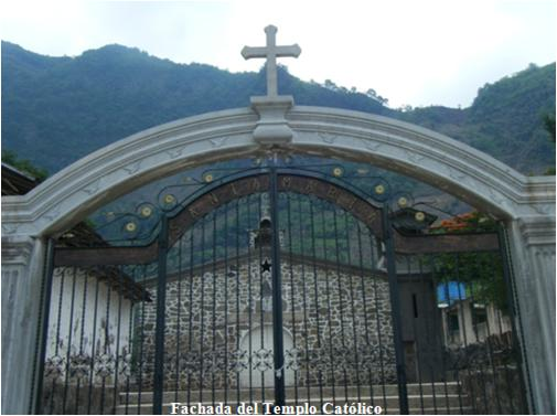 Fachada del templo católico Santa María Catzotipan